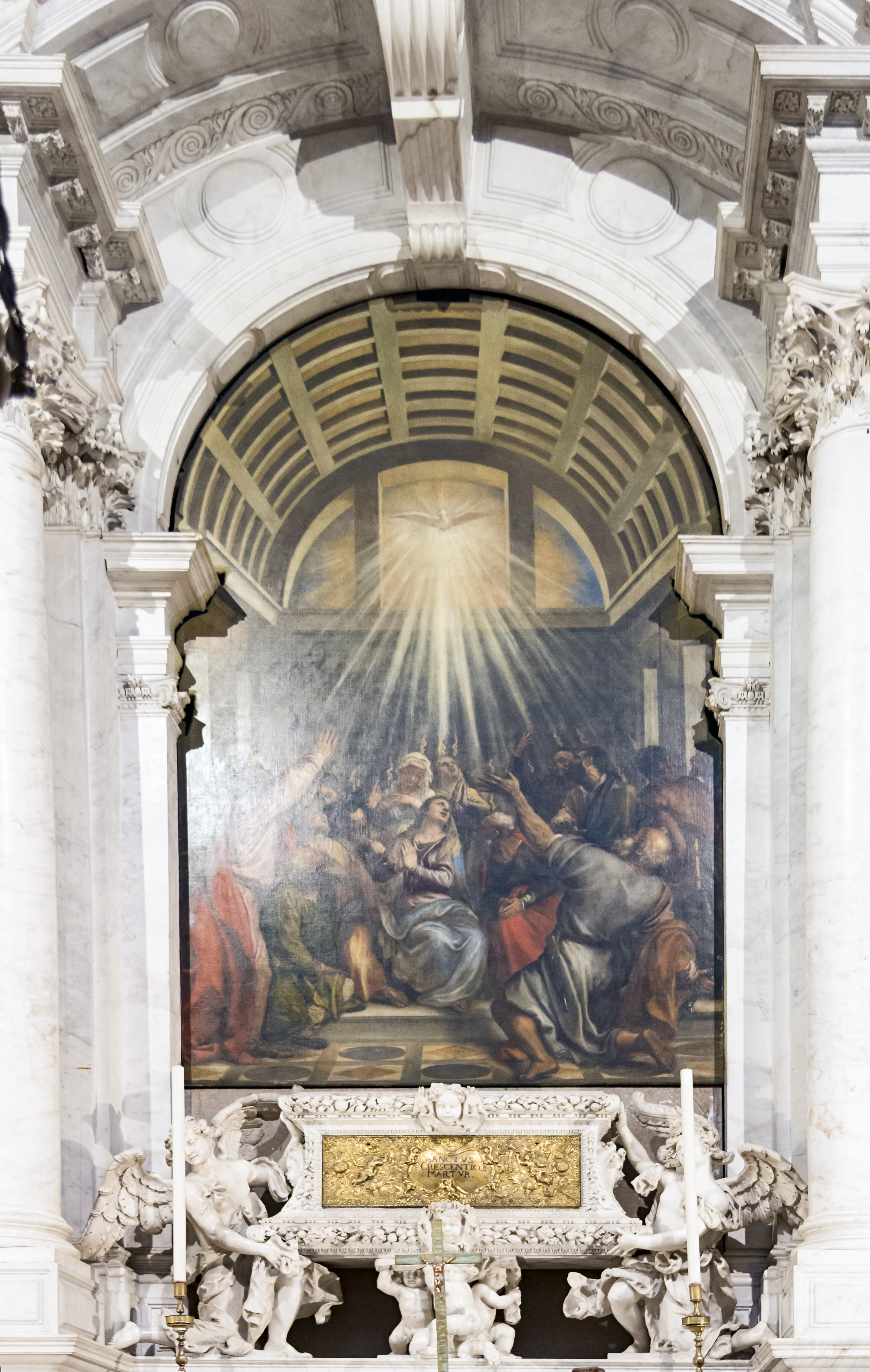 Santa Maria della Salute in Venice. Altar of Descent of the Holy Spirit. On the altar the reliquary of Crescentius of Rome, the angelic sculptures by Michele Fabris called Ongaro. The altarpiece shows a canvas of the Titian "The Descent of the Holy Ghost" painted in 1555.